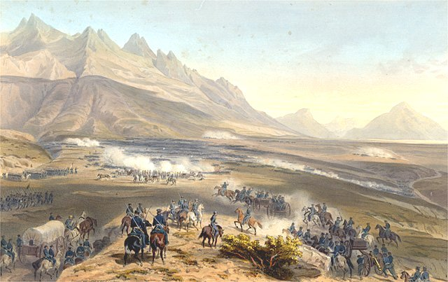 Battle of Buena Vista during the Mexican-American War, painting by Carl Nebel.